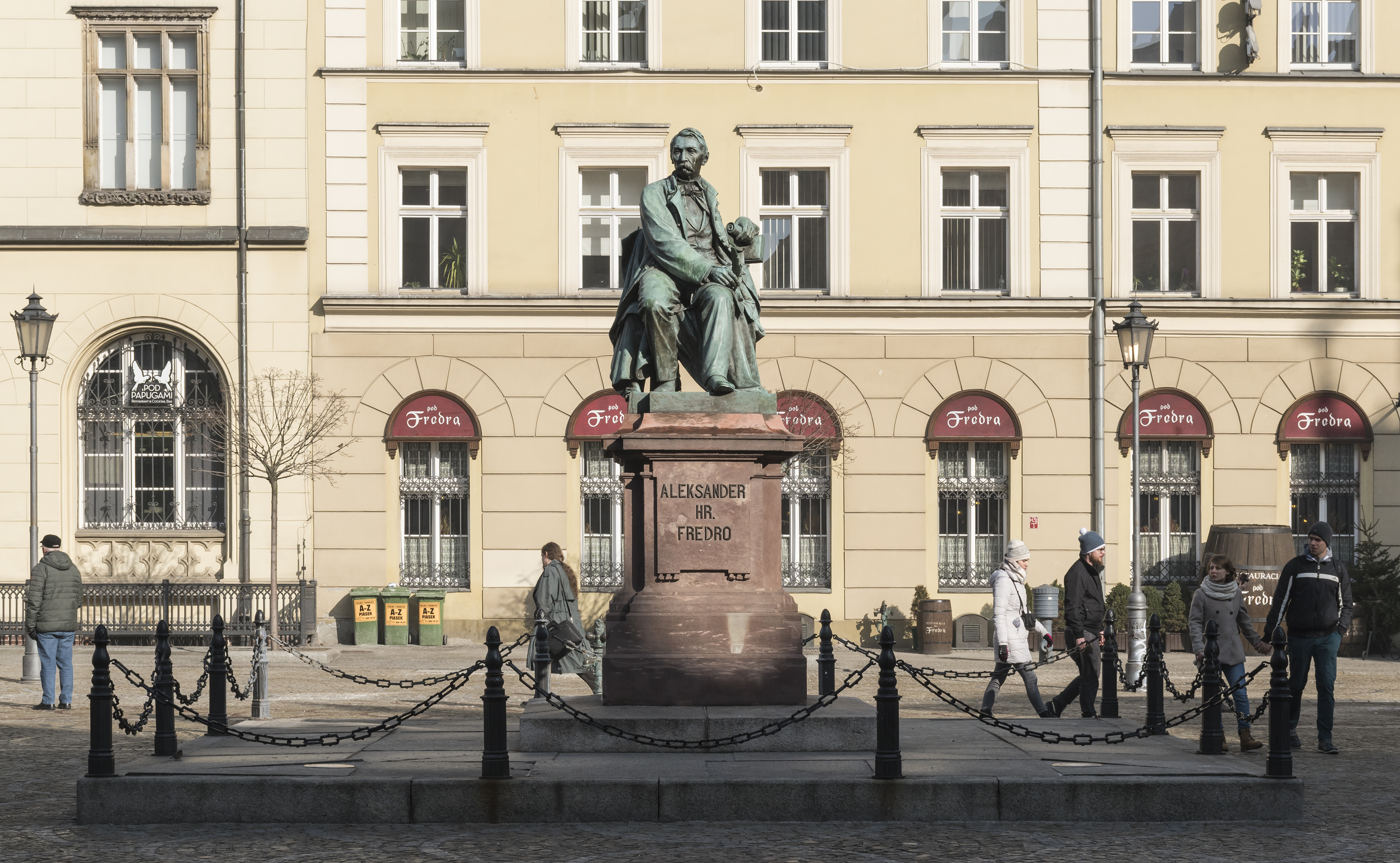 Aleksander Fredro Monument in Wrocław